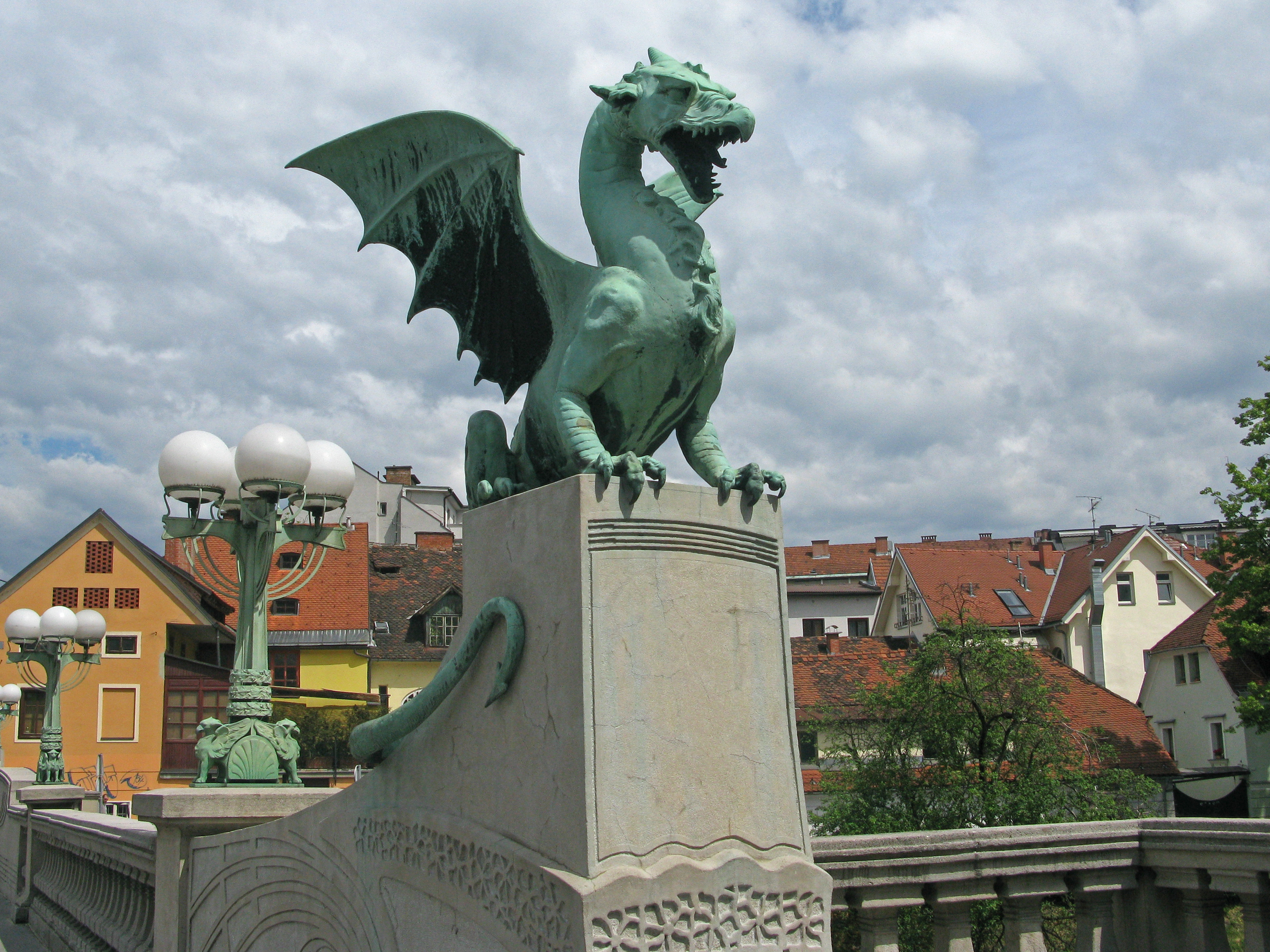 Dragon Bridge 1